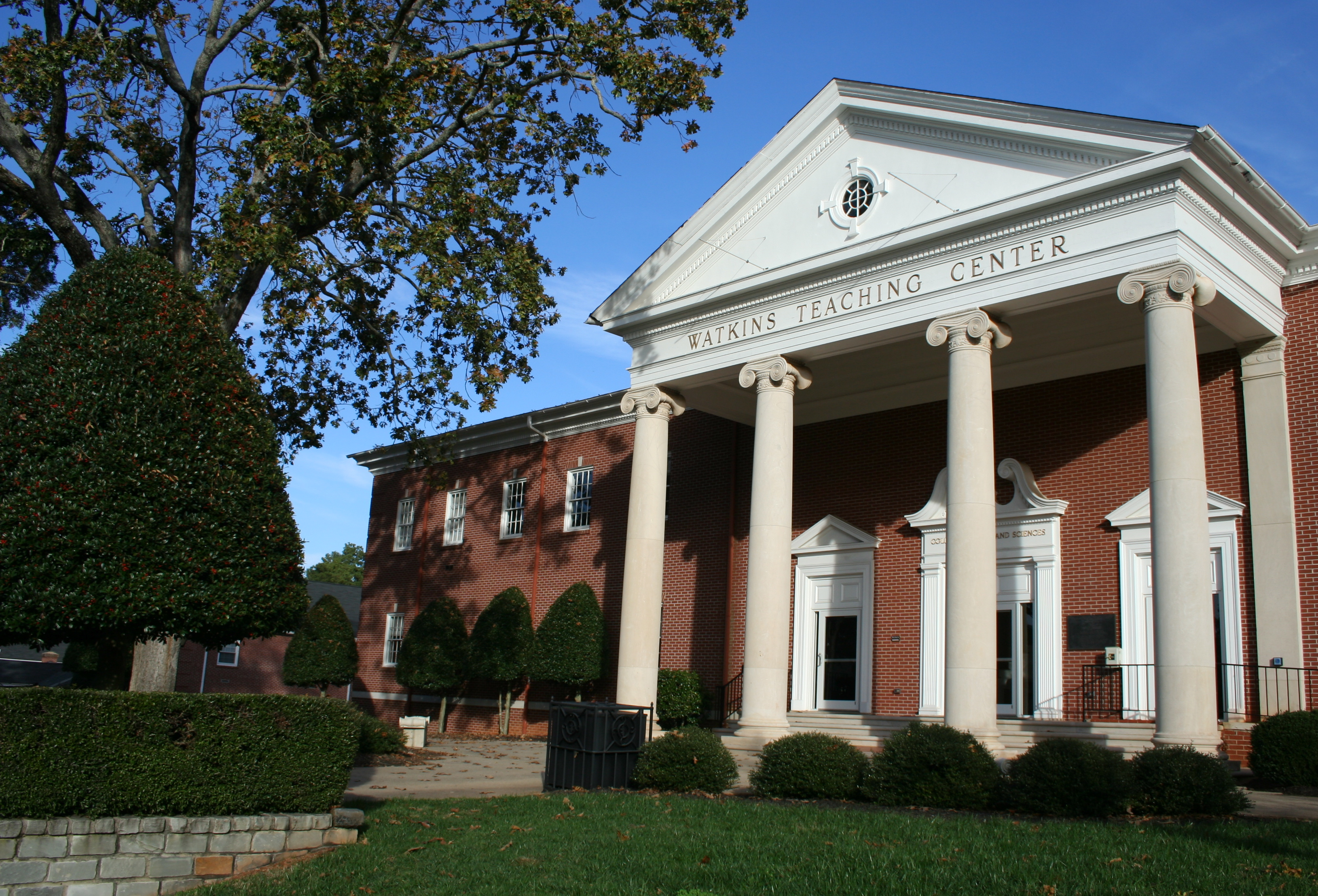 Watkins Teaching Center at Anderson in late summer